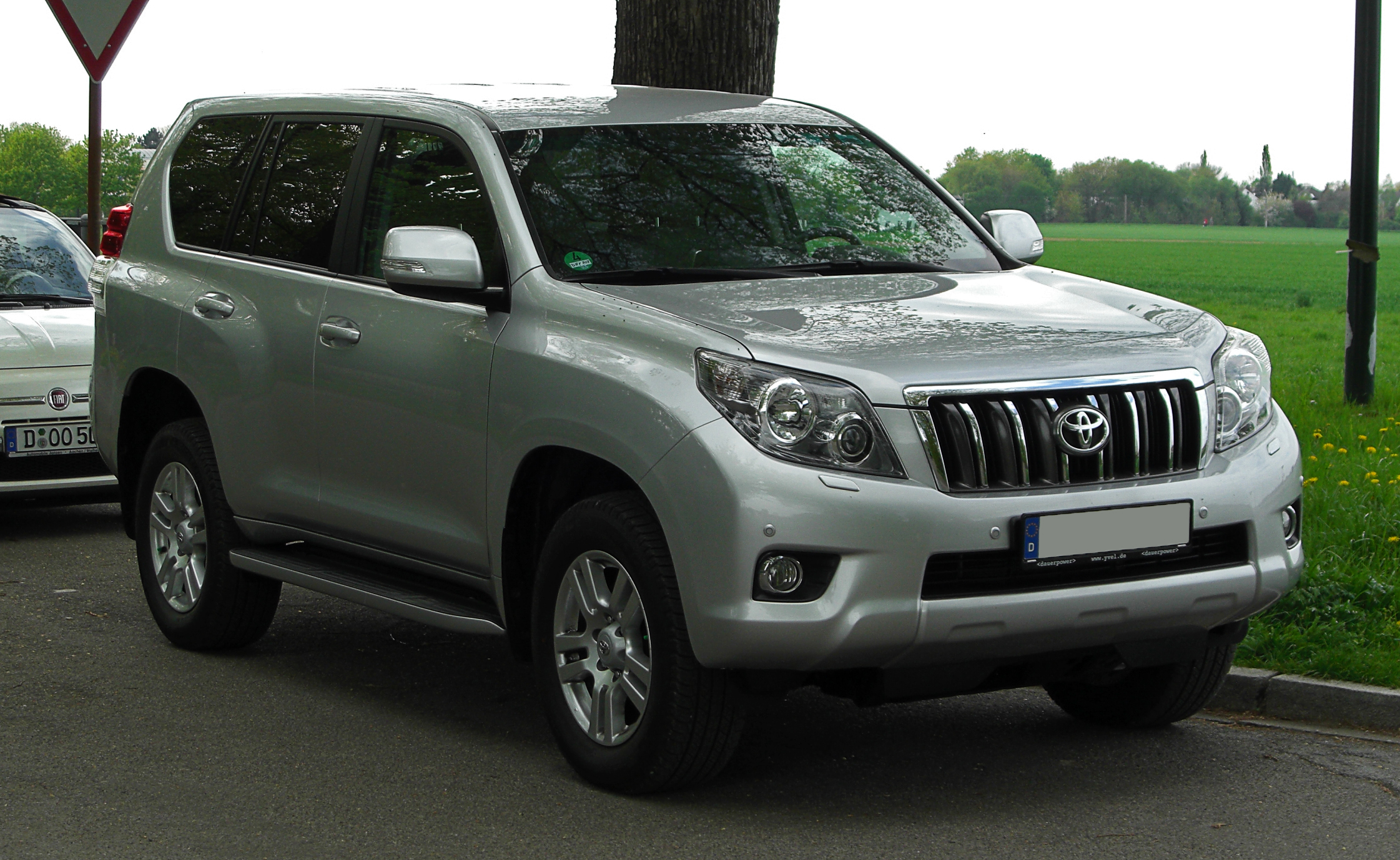 Toyota Land Cruiser (J15)